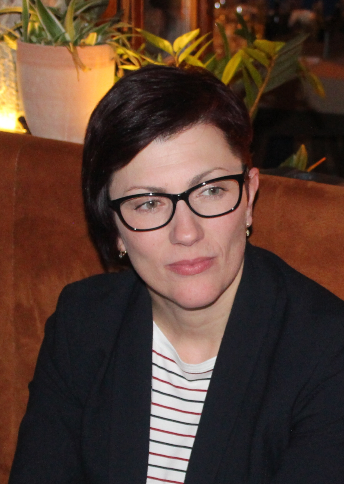 Katarina Tomic proffesor of Medical Academiy, Krusevac,Serbia Srpski (latinica): Katarina Tomić, profesor Akademije Vaspitačko-medicinskih strukovnih studija, Kruševac,Srbija